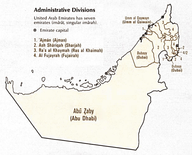 A map showing the seven Emirates of the United Arab Emirates.